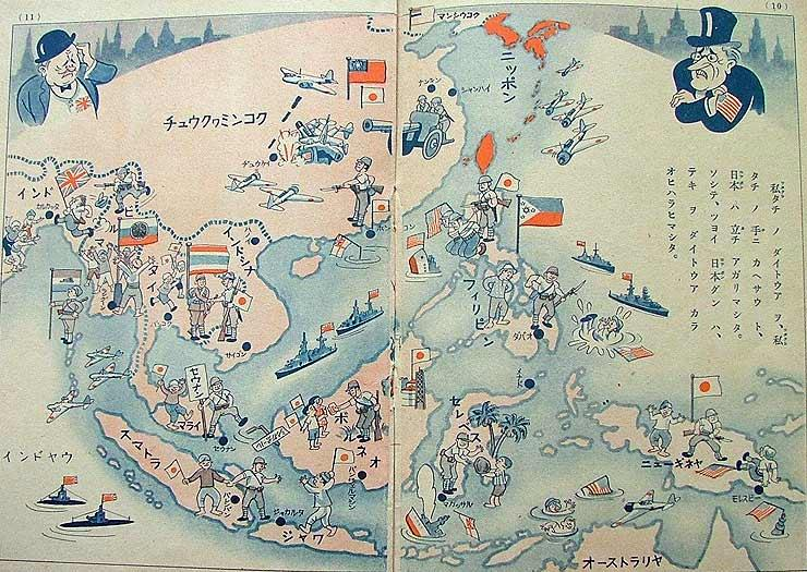 Fragment of Japanese propaganda booklet published by the Tokyo Conference (1943)